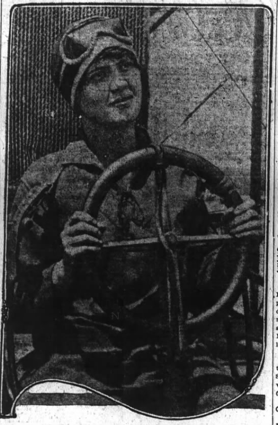 Helen Hodge, a member of the Early Birds of Aviation, sits in a plane in Los Gatos in 1919.